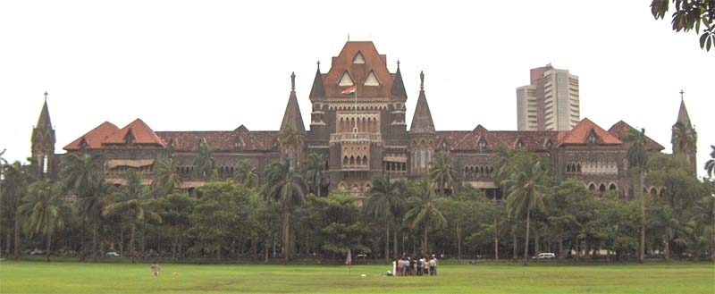 The Bombay High Court in Mumbai. Image taken by me, Nichalp on Sun, Aug 7, 2005